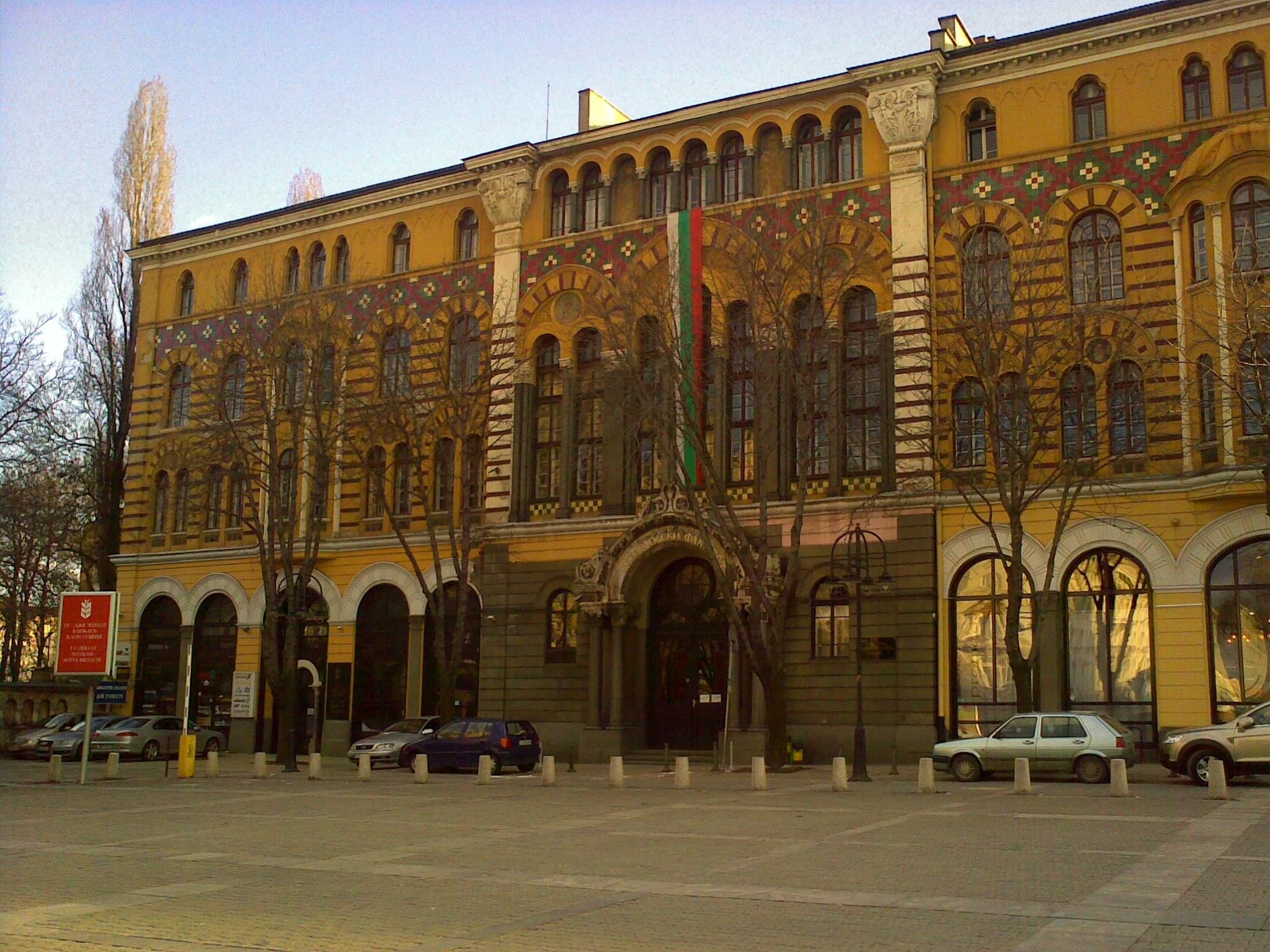 Sofia: University of Sofia, The Faculty of Theology